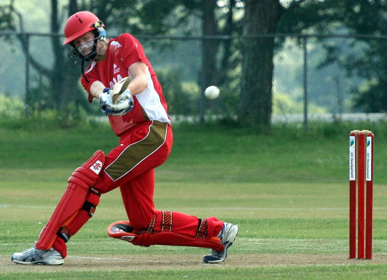 Taken at King City, Ontario